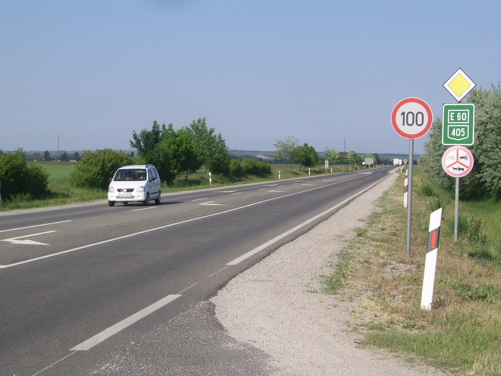 Road 405 near Nyáregyháza (Dánszentmiklós), Hungary